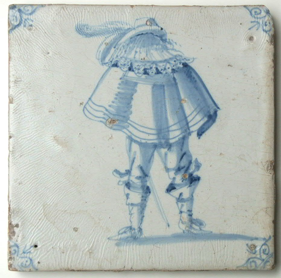 Tile with illustration of a nobleman.